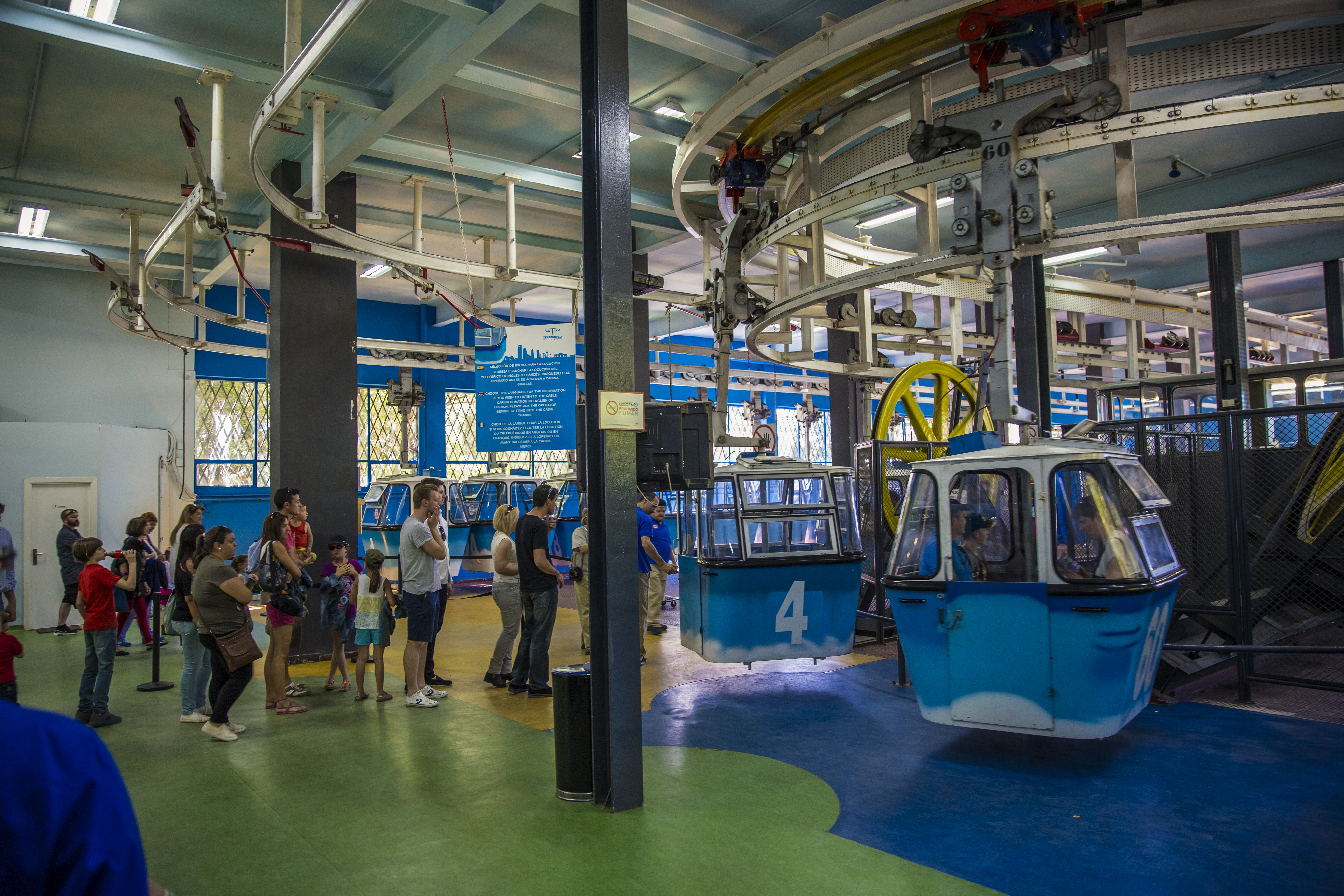 Tour around the City of Madrid Spain